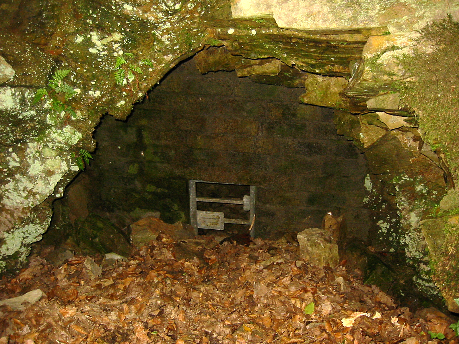 Walled up entrance to a cave southeast of Lampaden; Rhineland-Palatinate, Germany. Here near the river Ruwer were at the end of World War 2 the only two installed V-3 used against a target. The cave originates from earlier times and was used by the V-3 emplacement as a shelter.